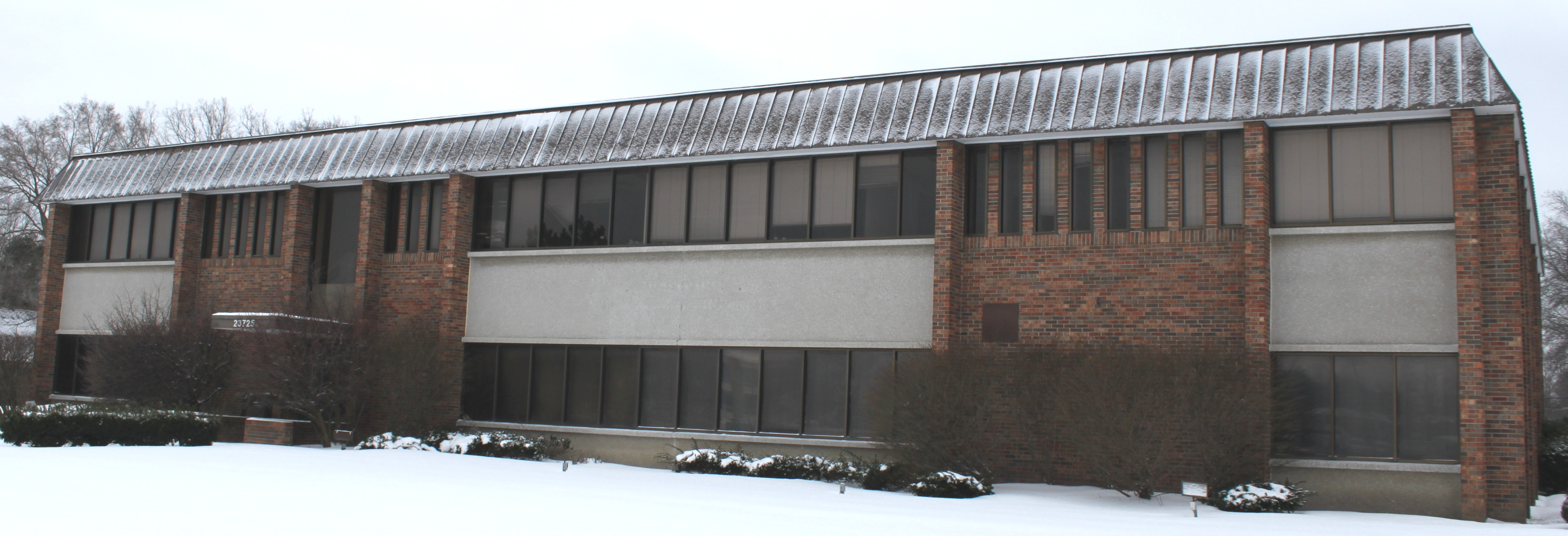 Islamic American University building, 23725 Northwestern Highway, Southfield, Michigan